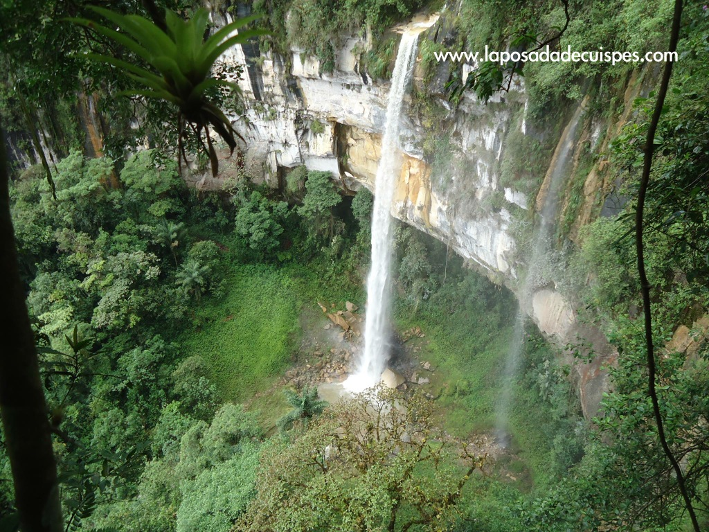 Yumbilla waterfall 895 meters in height. Cuispes, Chachapoyas, Peru.